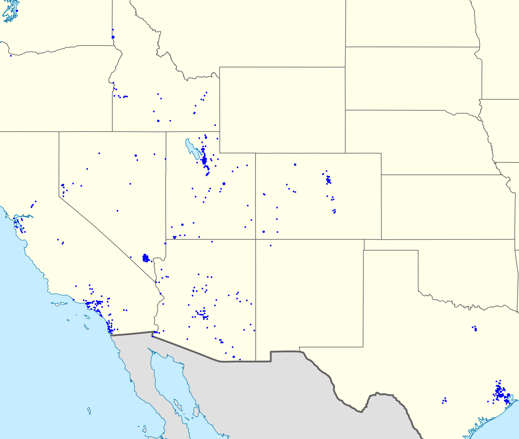 Footprint of traditional Zions Bancorporation.